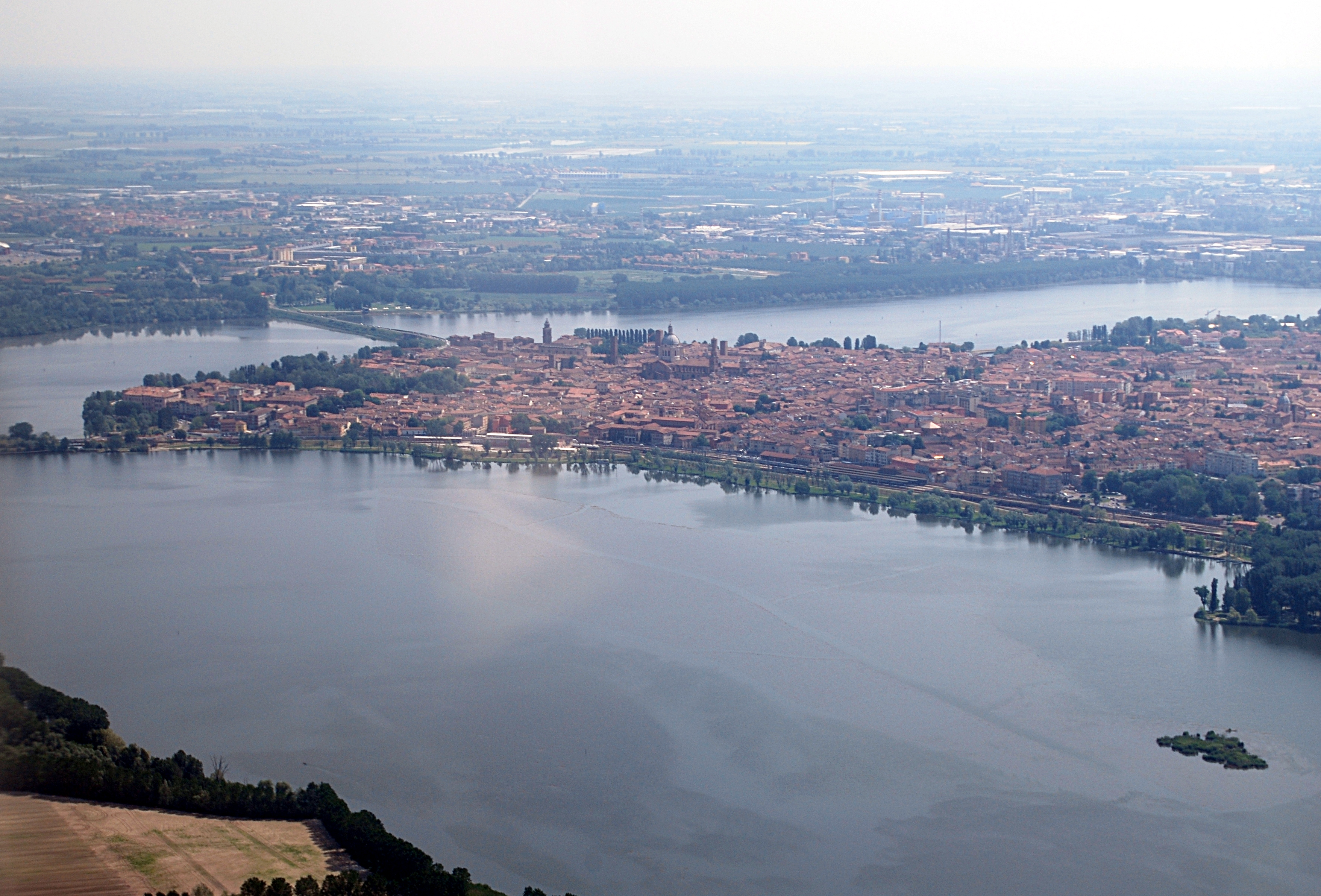 Aerial view of Mantova